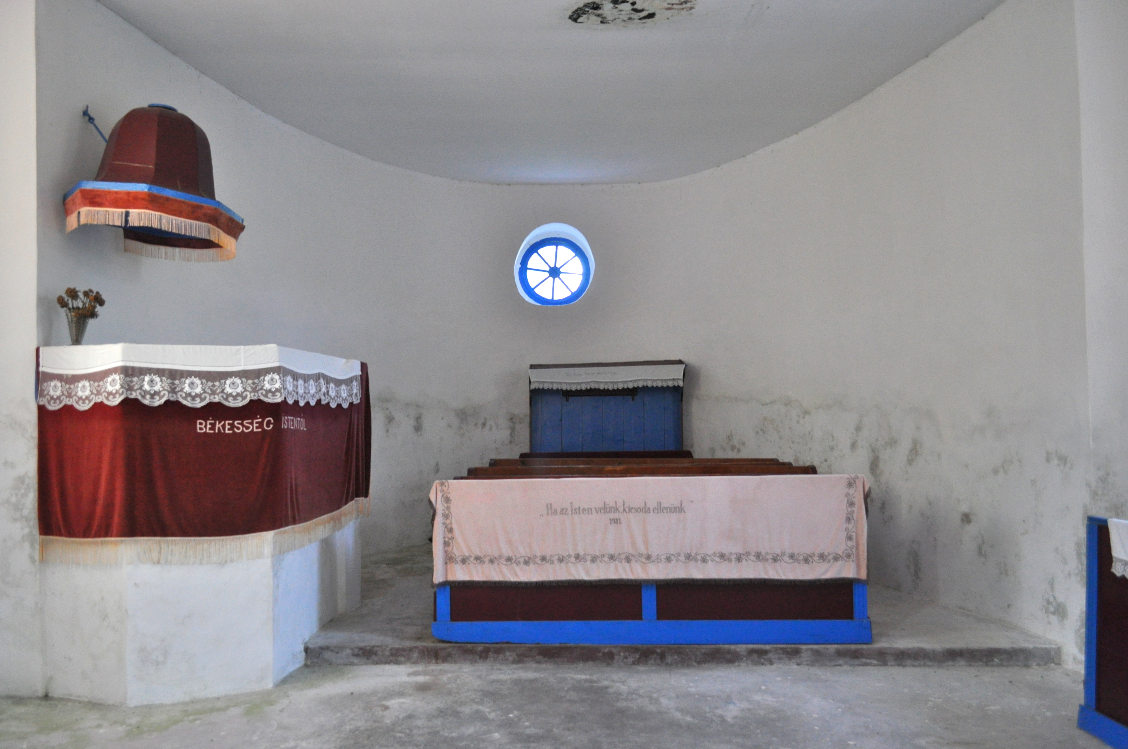 Reformed church in Diviciorii Mari, Cluj county, Romania